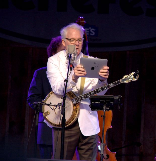 Steve Martin reads his "thousand-dollar set list" at MerleFest, 2011. Photo by Forrest L. Smith, III.